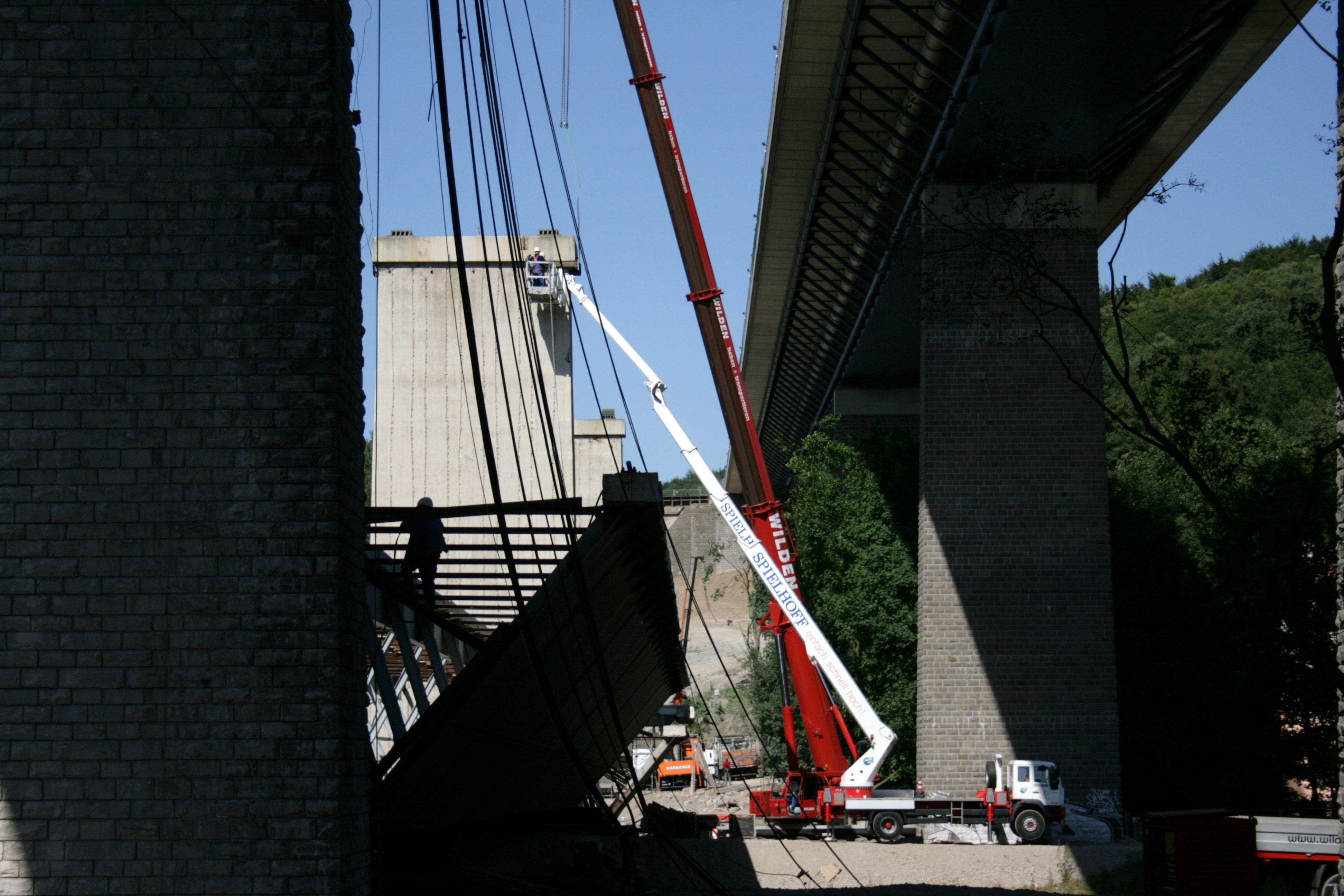 Disassembling of the northern bridge part